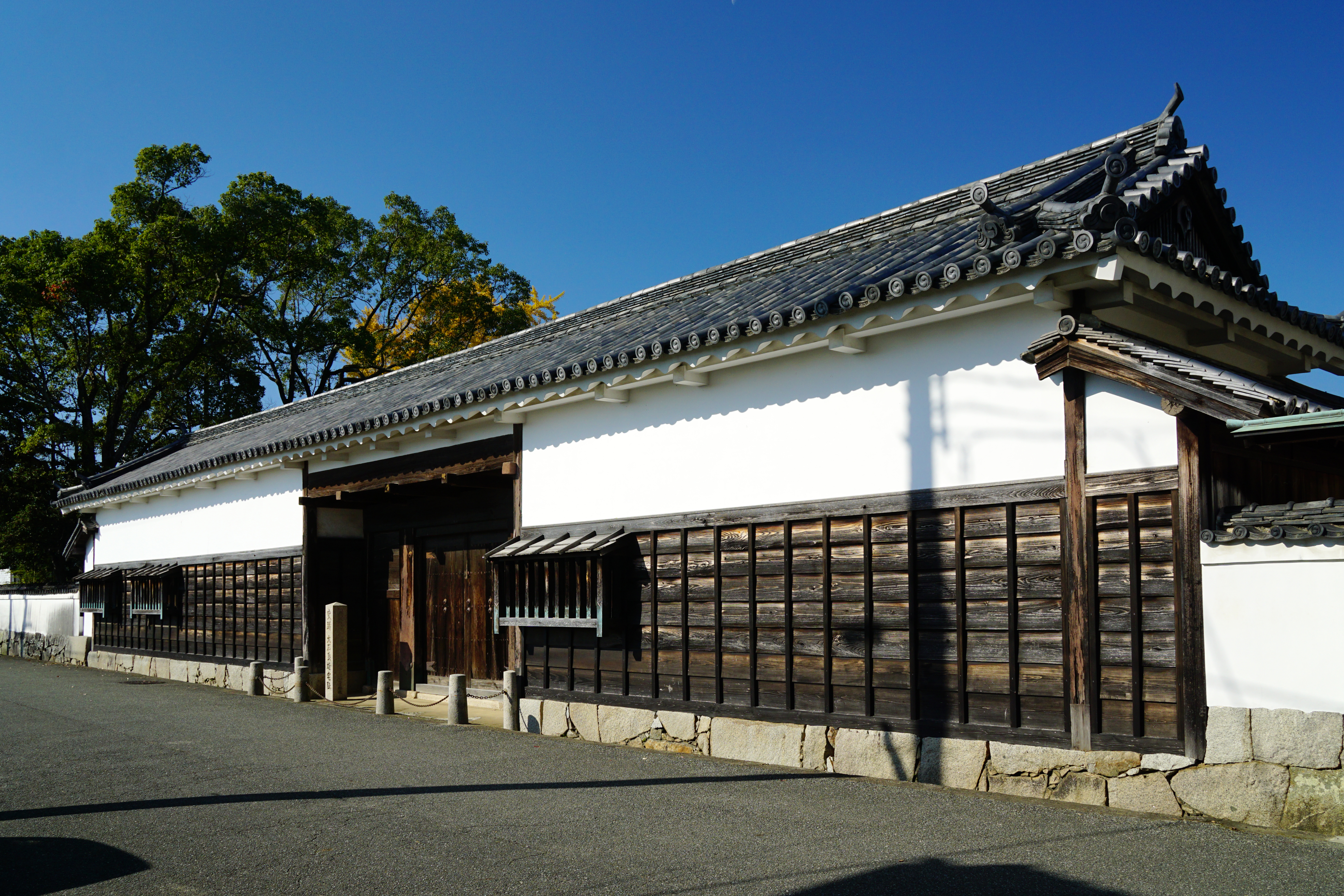 Nagaya-mon of Oishi's Residence in Ako, Hyogo prefecture, Japan.